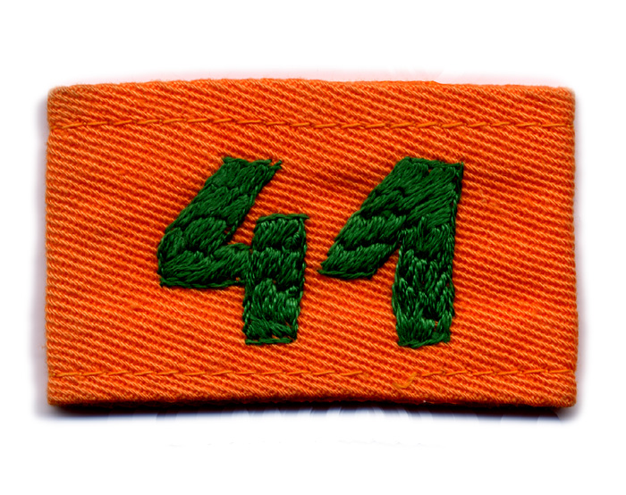 Flap placed by member of 41 Bydgoszcz Scouting Troop on epaulet.